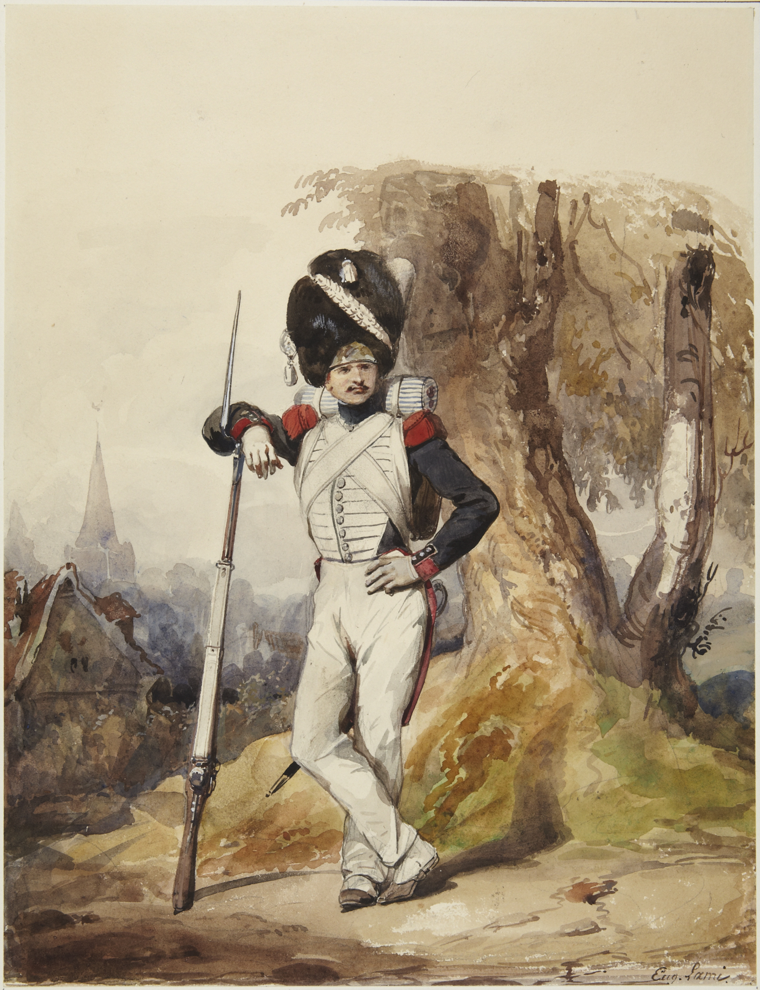 Eugène Louis Lami, French, 1800–1890 Grenadier of the Royal Guard (recto); sketch of mounted officer (verso), ca. 1817 Watercolor on cream wove paper sheet: 32.4 × 24.8 cm (12 3/4 × 9 3/4 in.) mount: 39 × 34 cm (15 3/8 × 13 3/8 in.) frame: 61 × 45.8 × 3.4 cm (24 × 18 1/16 × 1 5/16 in.) Gift of Stephen Spector x1967-34 Lami was a highly decorated artist who exhibited regularly at the Salon throughout his long career. He is remembered for his elegant watercolors depicting Parisian society during the Constitutional Monarchy under the reign of Louis-Philippe (1830-48). Once dubbed by Baudelaire as "the poet of dandy-ism," Lami gained early acclaim working in collaboration with the painter Horace Vernet on a history of French military uniforms, published in two volumes of hand-colored lithographs. The first volume records one hundred historical Napoleonic uniforms from 1791 to 1814, and the second contains fifty illustrations documenting contemporary uniforms of the Bourbon Restoration between 1814 and 1824, all based on detailed watercolors such as this. The distinctive bearskin hat and red epaulettes identify this soldier as a Grenadier of the Royal Guard, the elite troops under the command of King Charles X.